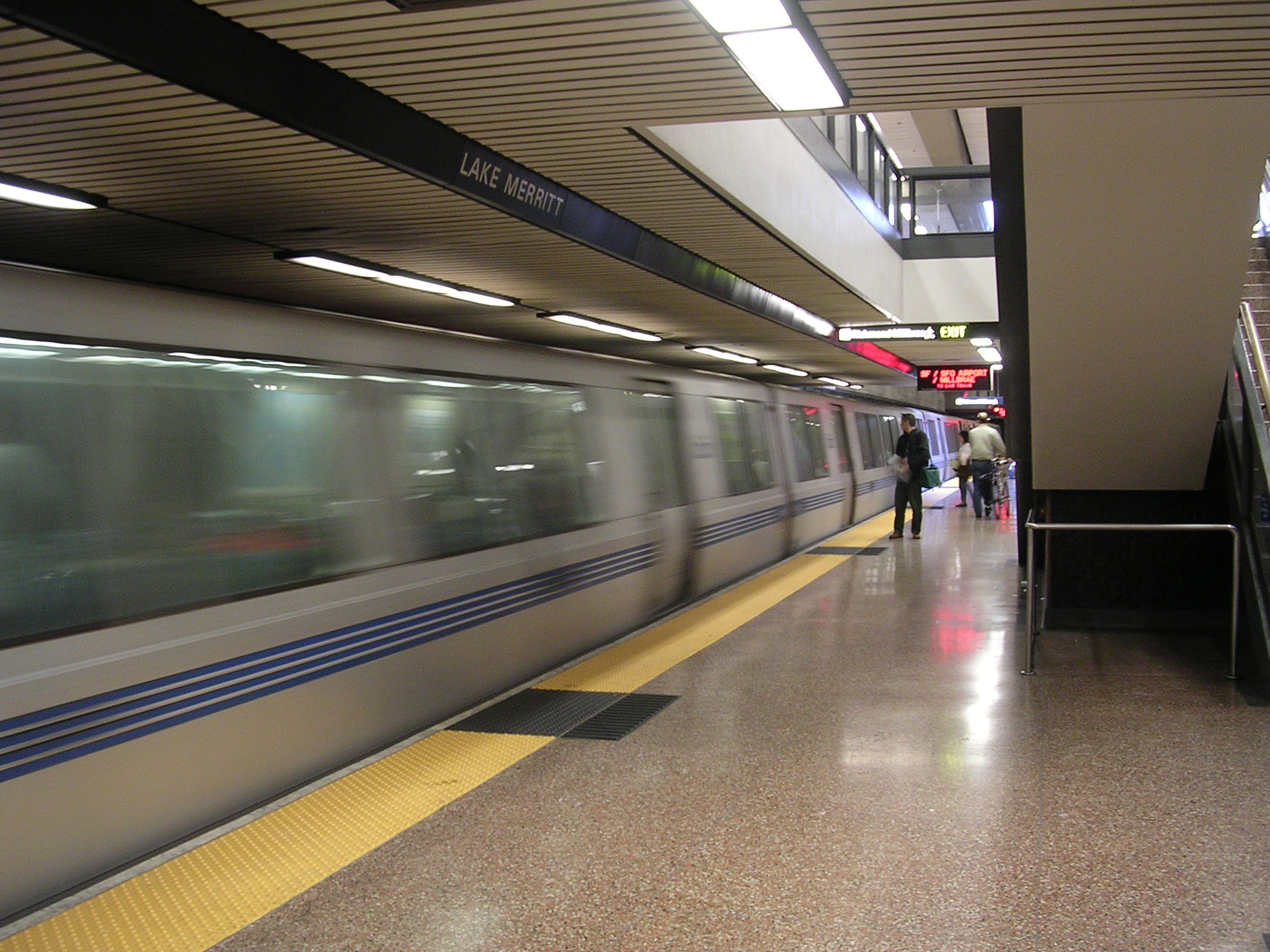 Lake Merritt platform as a BART train pulls into the station in 2006